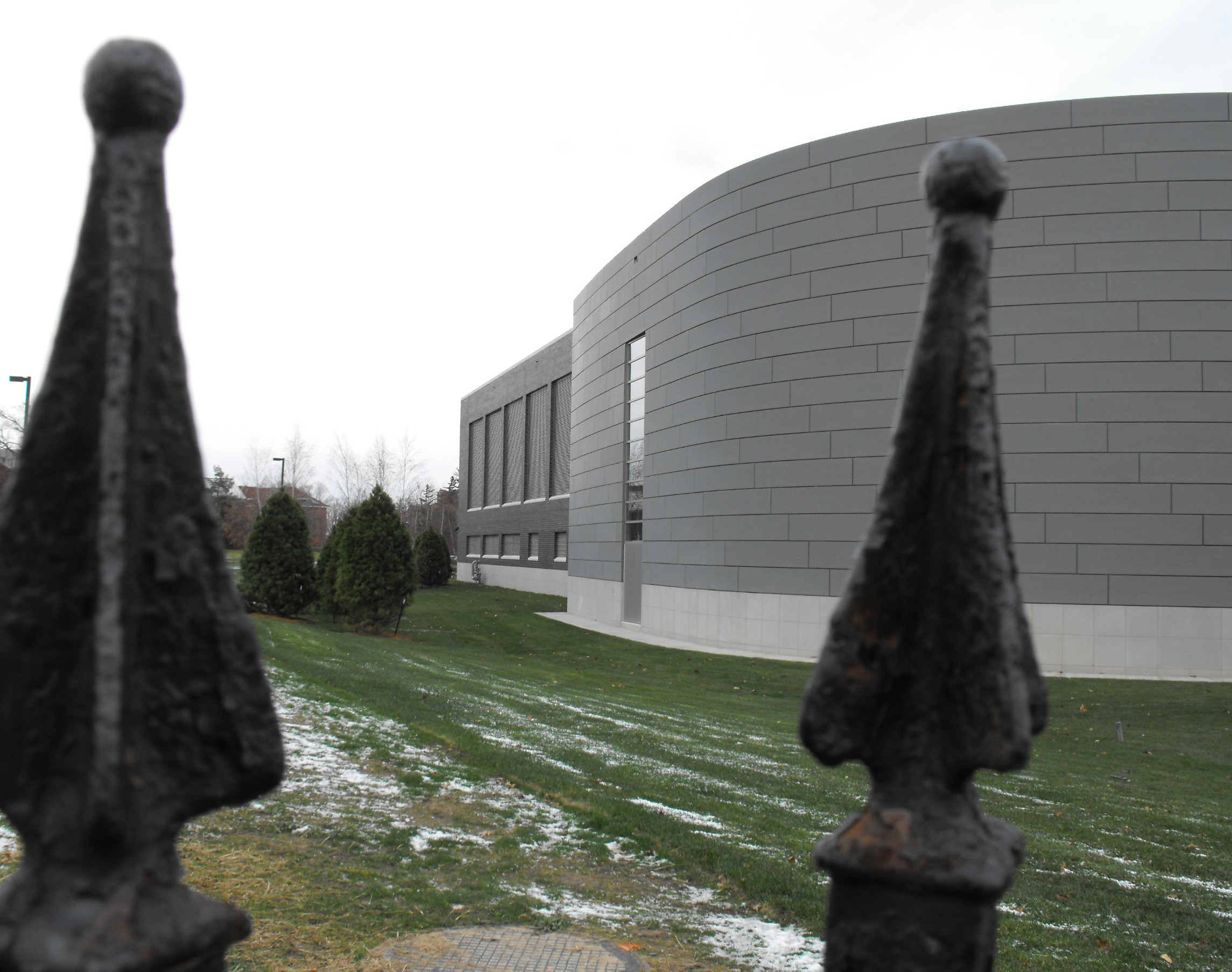 Side view of Burchfield Penney Art Center